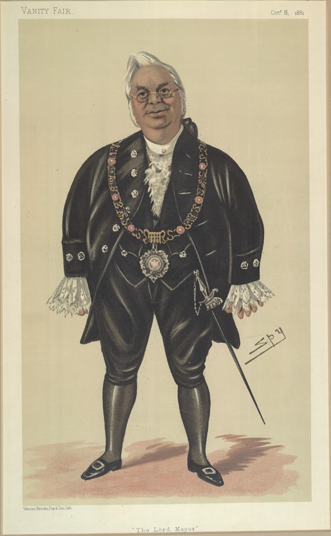 Statesmen No.375: Caricature of Mr William McArthur MP. Caption reads: "The Lord Mayor"